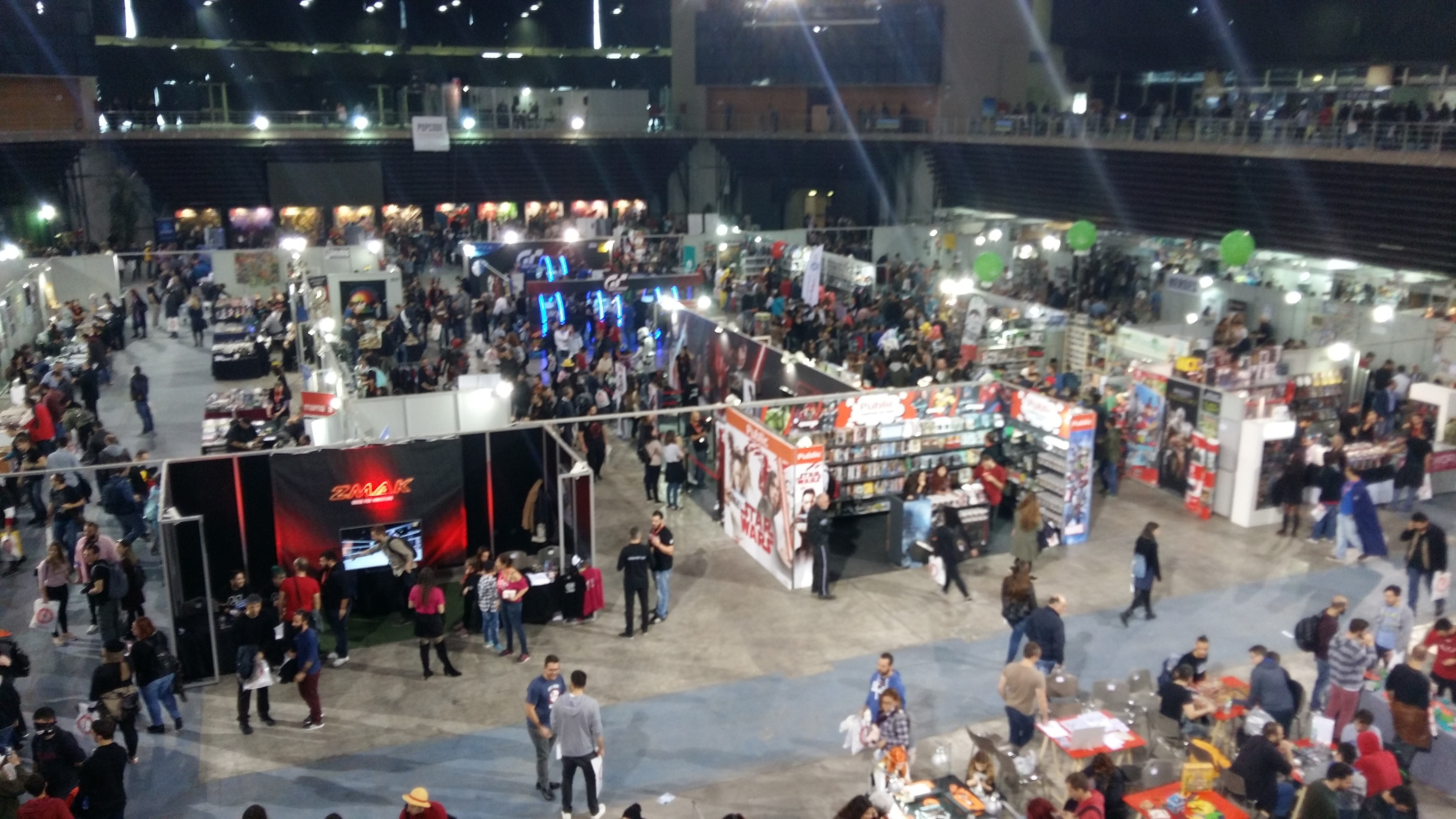 Panoramic view of AthensCon at Taekwondo Stadium in Greece